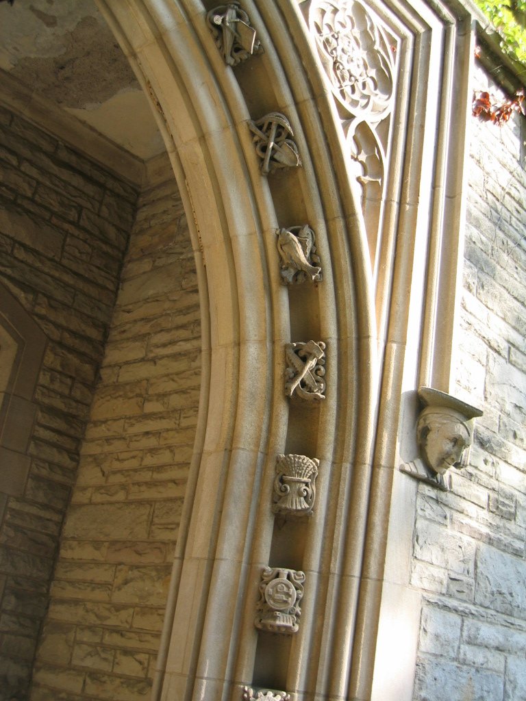 Archway of University Hall at McMaster University, Hamilton, Ontario, Canada